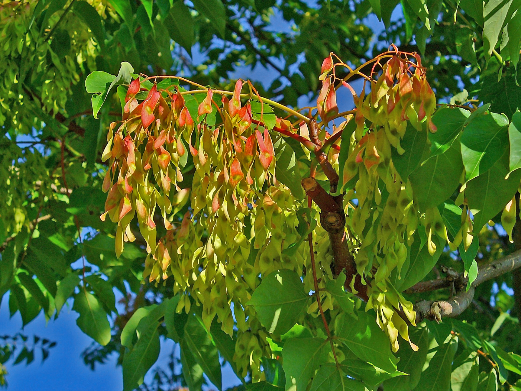 Ailanthus altissima, Simaroubaceae, Tree of Heaven, Ailanthus, infrutescence.